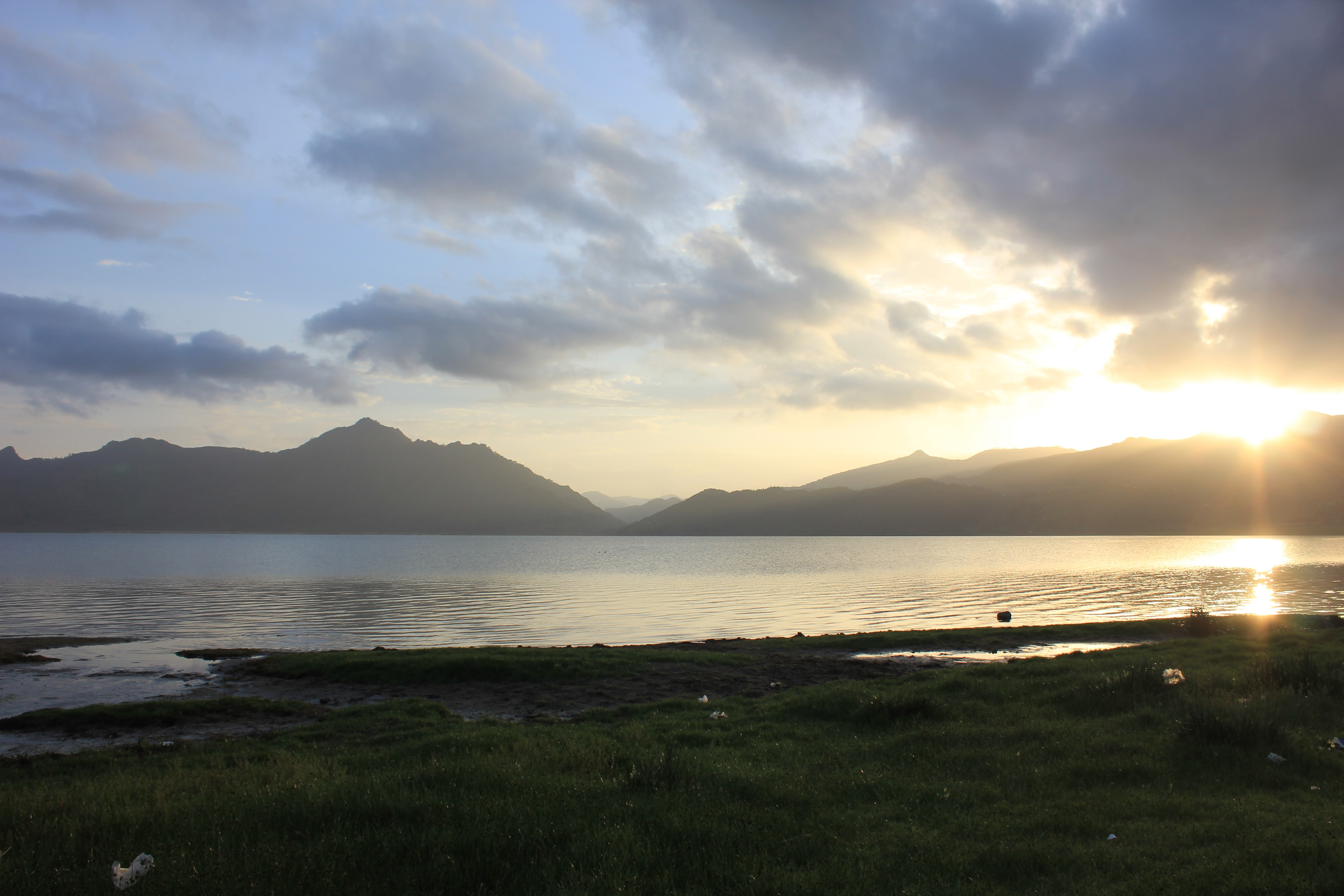 Korem